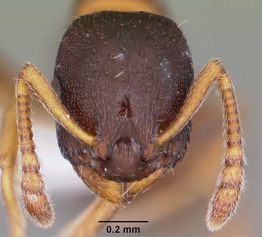 Head view of ant Leptothorax muscorum specimen casent0104847.